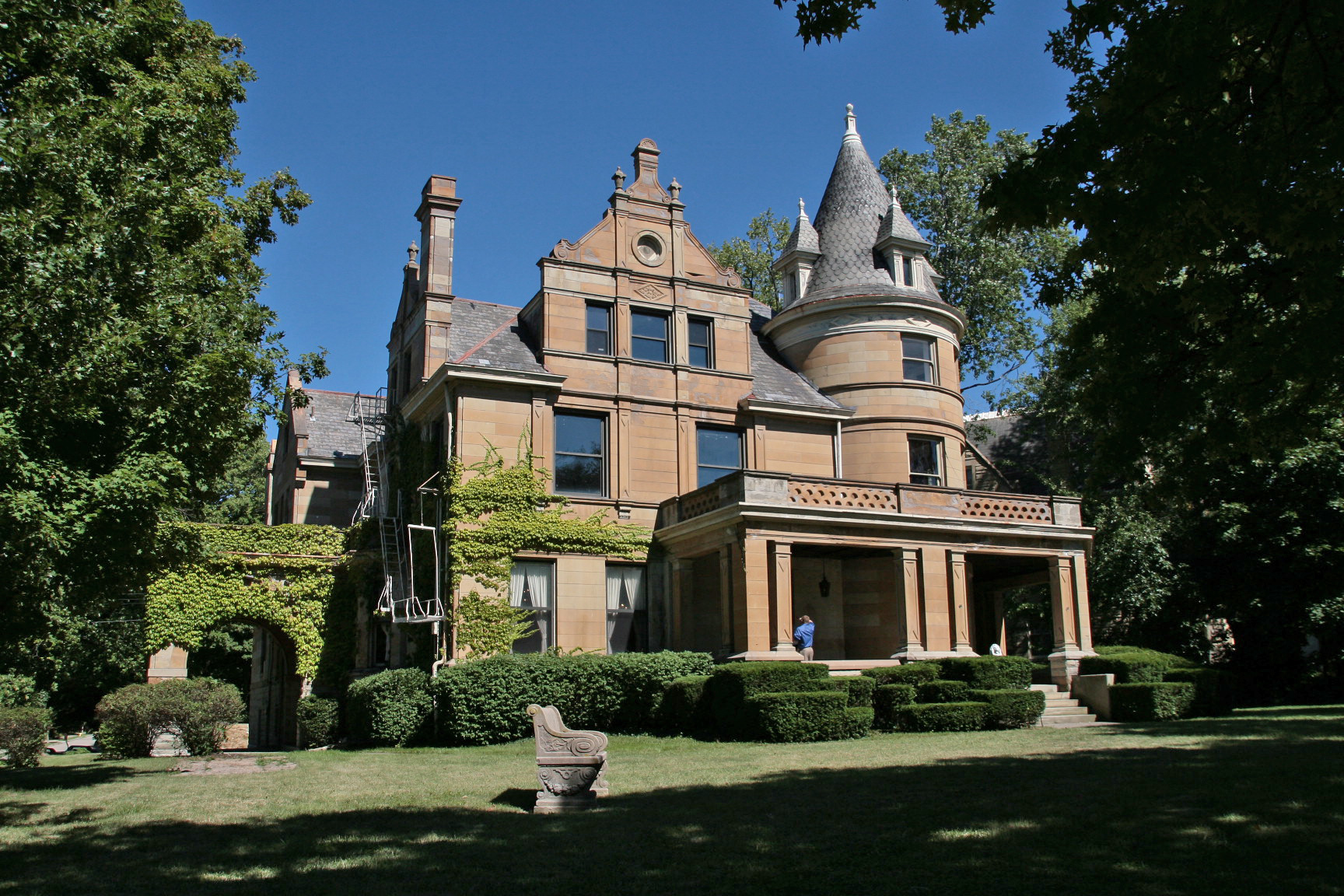 George B. Cox House at the intersection of Jefferson and Brookline Photo by Greg Hume